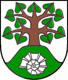 Coat of Arms of Evessen